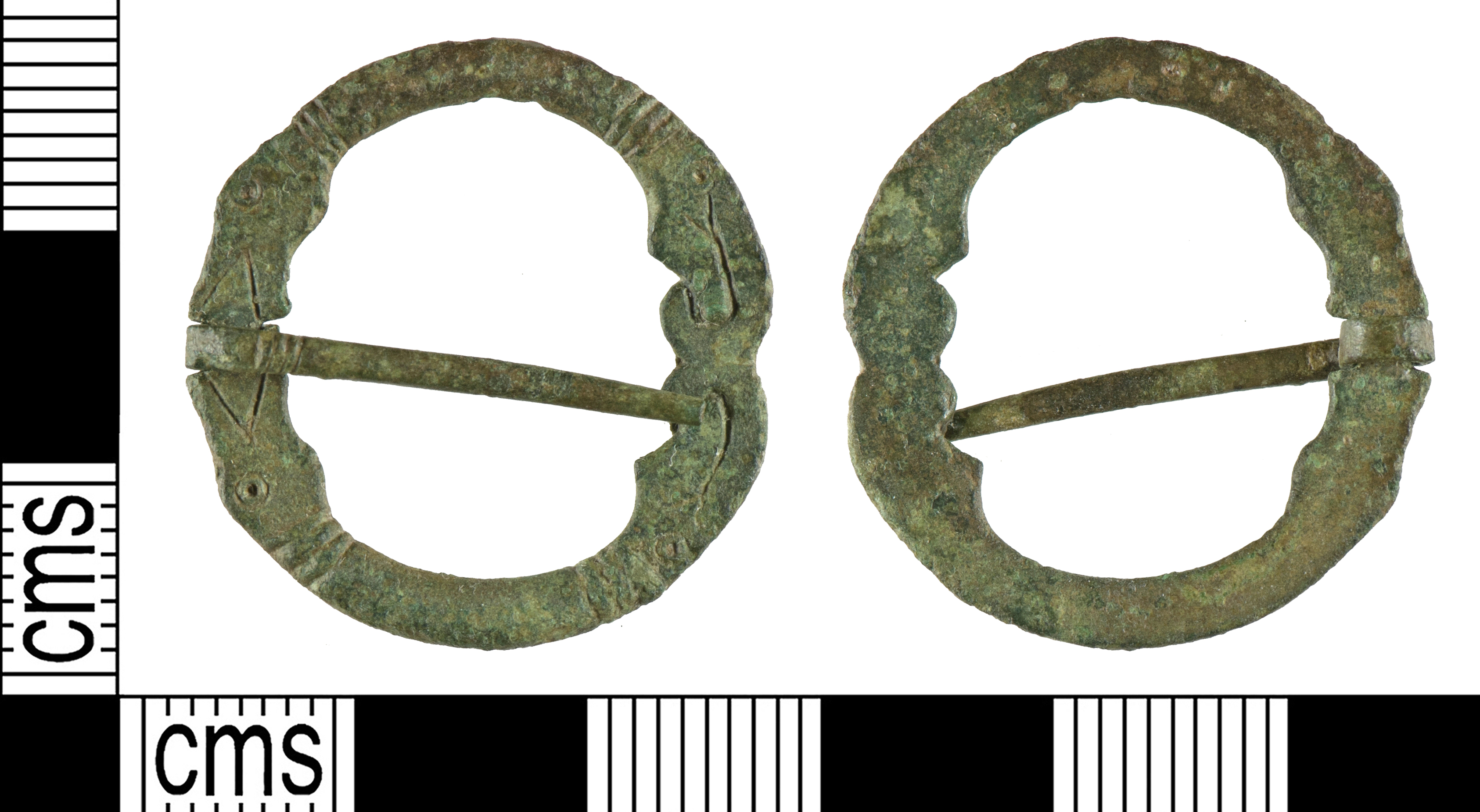 A complete copper alloy brooch of early Early-Medieval date. The brooch is annular with a narrow D-shaped section which flattens at opposing points on the frame to form integral decorative conjoined zoomorphic heads. One pair is in the form of open-mouthed beasts with ring-and-dot motifs representing eyes. A narrowed bar joins both beast's mouths and acts as a constriction for the pin. The opposite portion of the frame is in the form of birds' heads with long curved beaks delineated by incised lines. The eyes are also marked with ring and dot designs. Triple-banded circumferential collars are present where each of the four heads widens to the frame proper. The frame appears otherwise undecorated. The reverse is flat and undecorated. A circular-sectioned copper-alloy pin remains looped around the constriction in the frame and is also decorated with a triple-banded circumferential collar at the close of the loop. The metal has a mid-green patina and is worn. The brooch is 26mm in diameter, 2.9mm wide, 2.3mm thick and weighs 2.7g. The Style II animal heads date this brooch broadly to the 7th century AD.